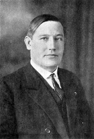 Anoniem. Jan Wils. 1928. Foto. Afkomstig uit Official Report of the Olympic Games of 1928 (...). Foto.